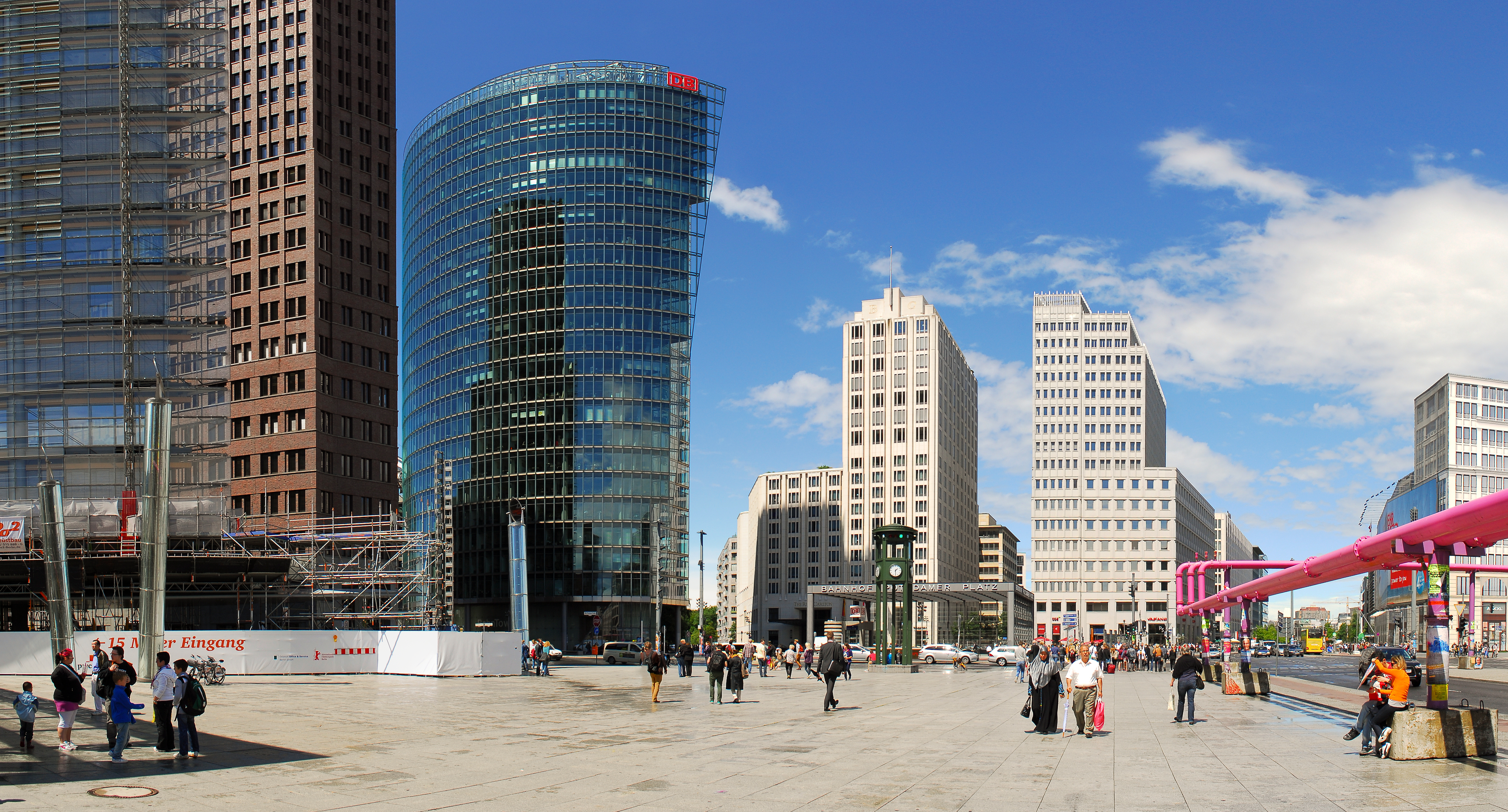 Potsdamer Platz in Berlin